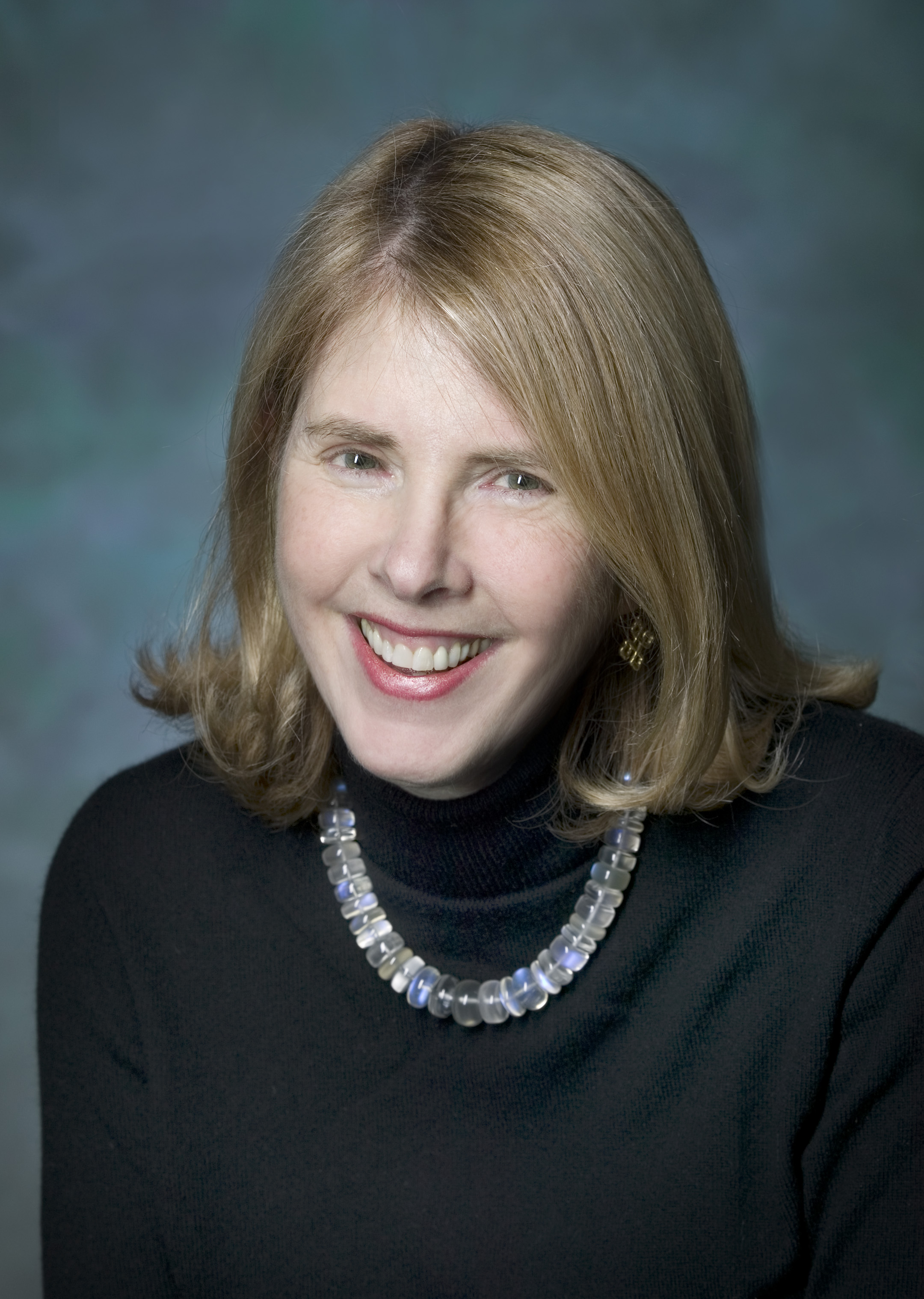 Kay Redfield Jamison, a publicity photo from JHMI